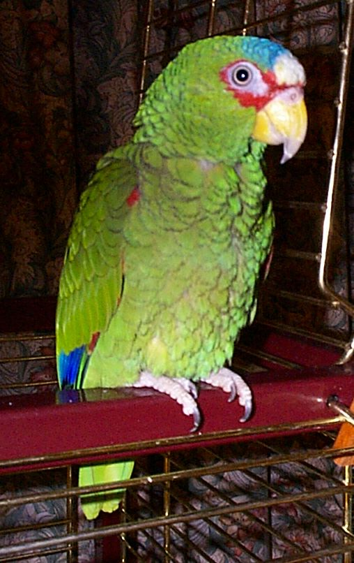 Charlie, a White-fronted Amazon parrot. Photograph by User:Redvers originally from wikipedia, now transferred to Commons. Note that the photograph has been altered by the author since the original upload and that the licence status has changed from Own Work GDFL to the more explicitly free Own Work Public Domain All Rights Released.